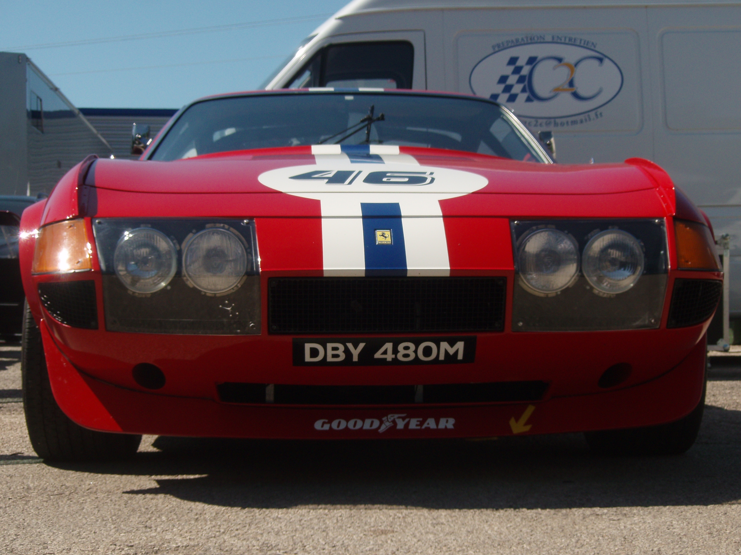 A 1974 Ferrari 365 GTB/4 LM Daytona Group 4. This particular car, VIN 17609, was actually a road-going 365 GTB/4 and was transformed in 1982 follwing Group 4 specifications.In 2004 it was modified again into a replica of Ferrari S65 GTB/4 LM Daytona Group 4 VIN 14885, a real racing Daytona.